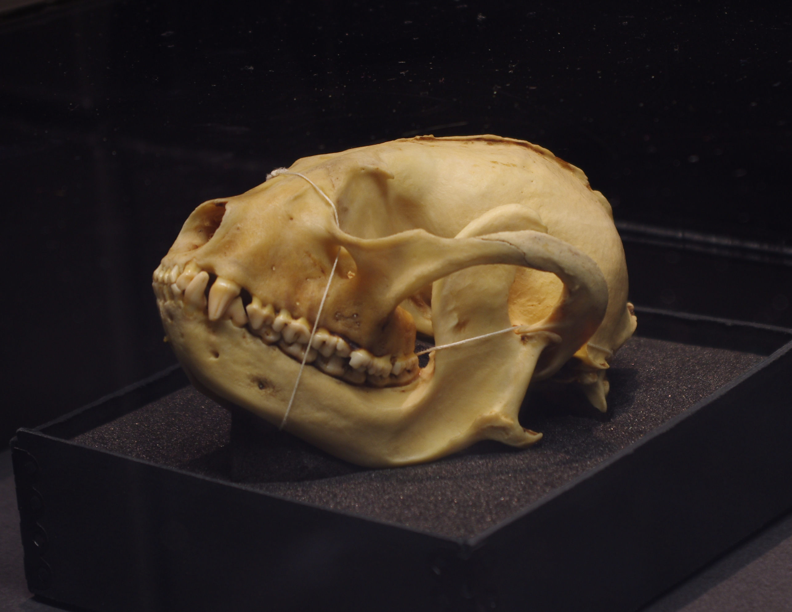 Ailurus fulgens (Red panda) skull at the Beaty Biodiversity Museum